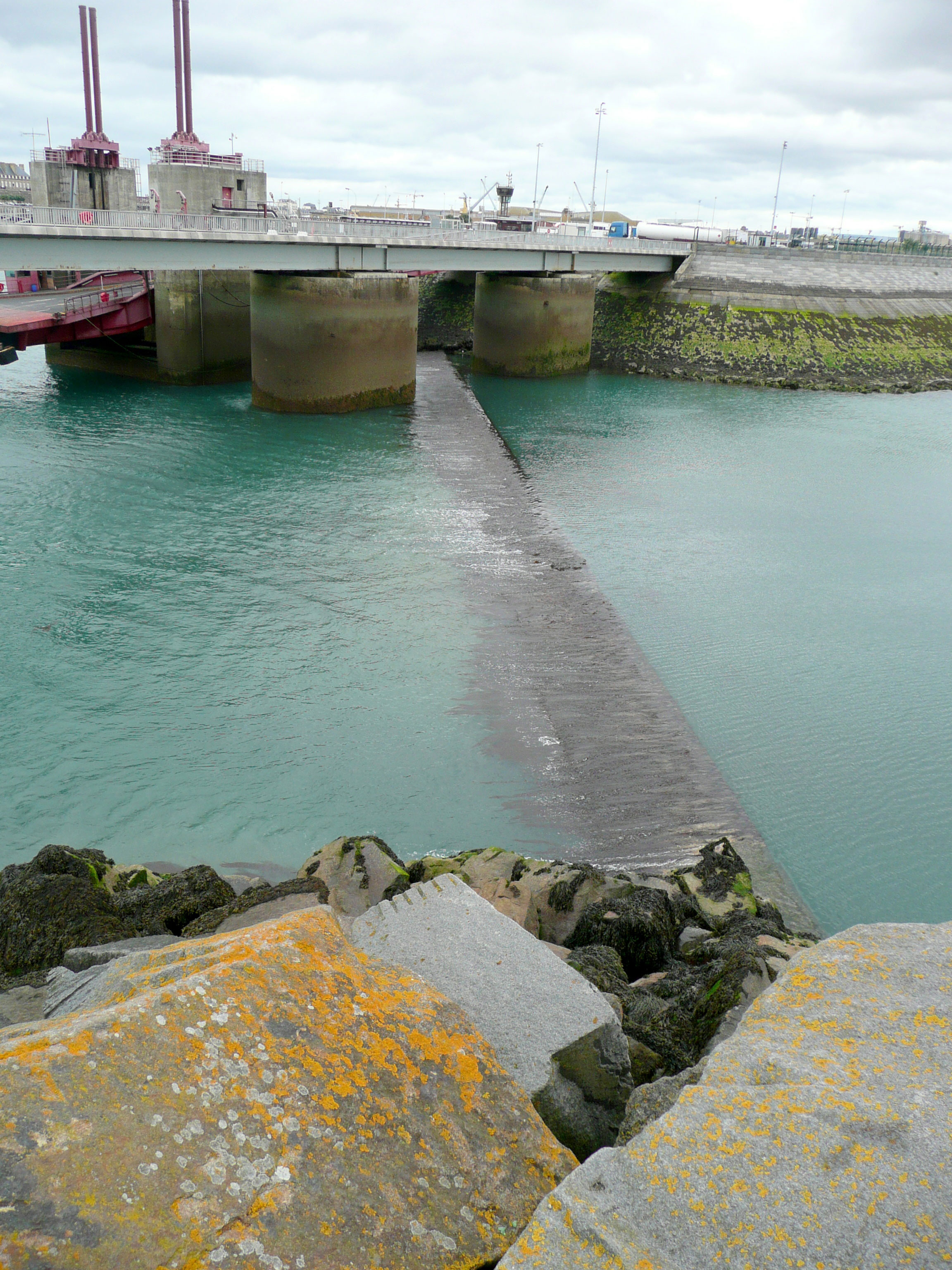 Entrance of Port of Sablons at low tide, Saint-Malo Brittany, France